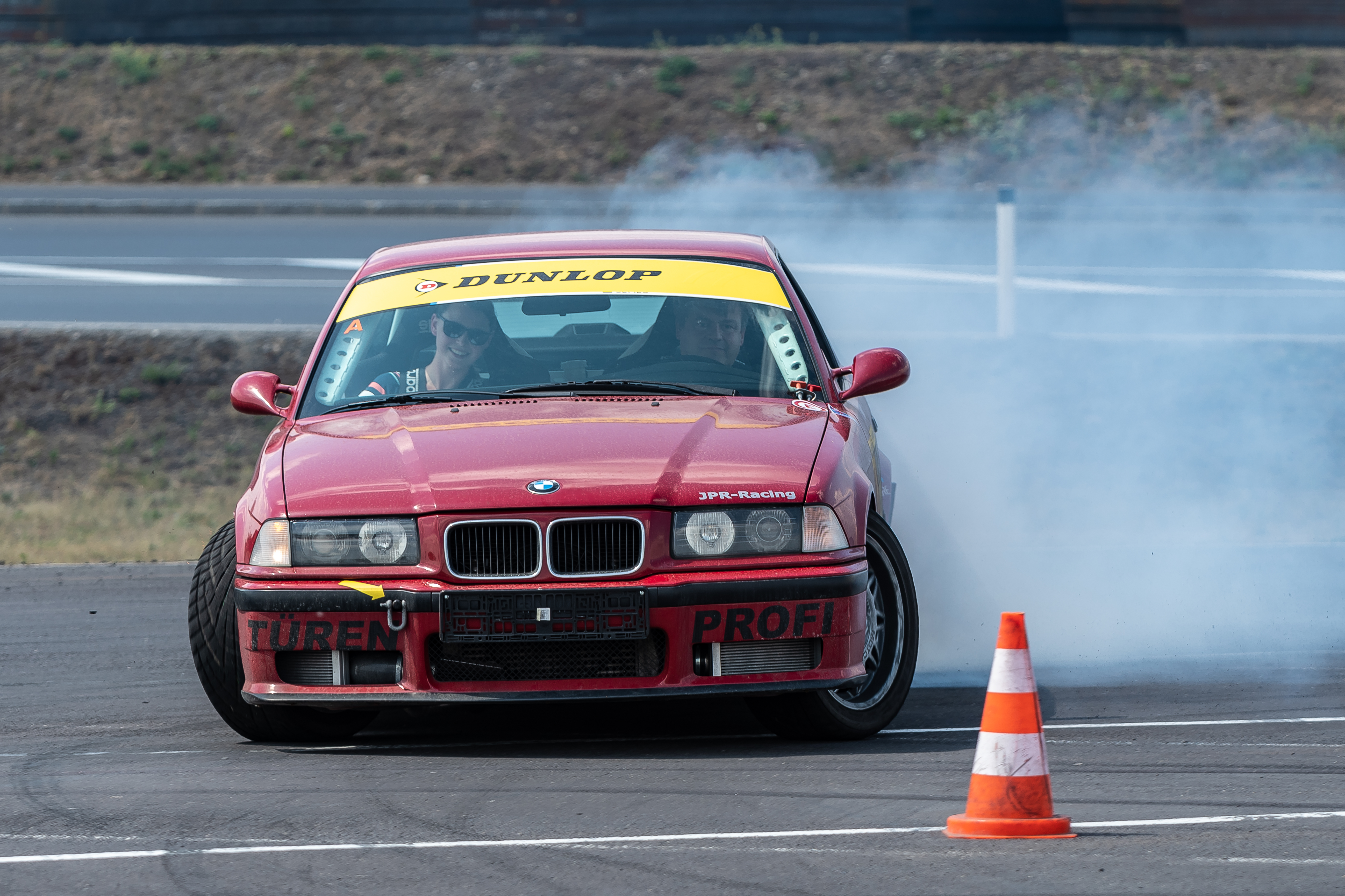 Action Day of Motorsportsektion of Sportklub VOEST Linz on June 9, 2018 / Race taxi BMW M3 (modified for drift racing) with driver Anton Brunthaler and passenger